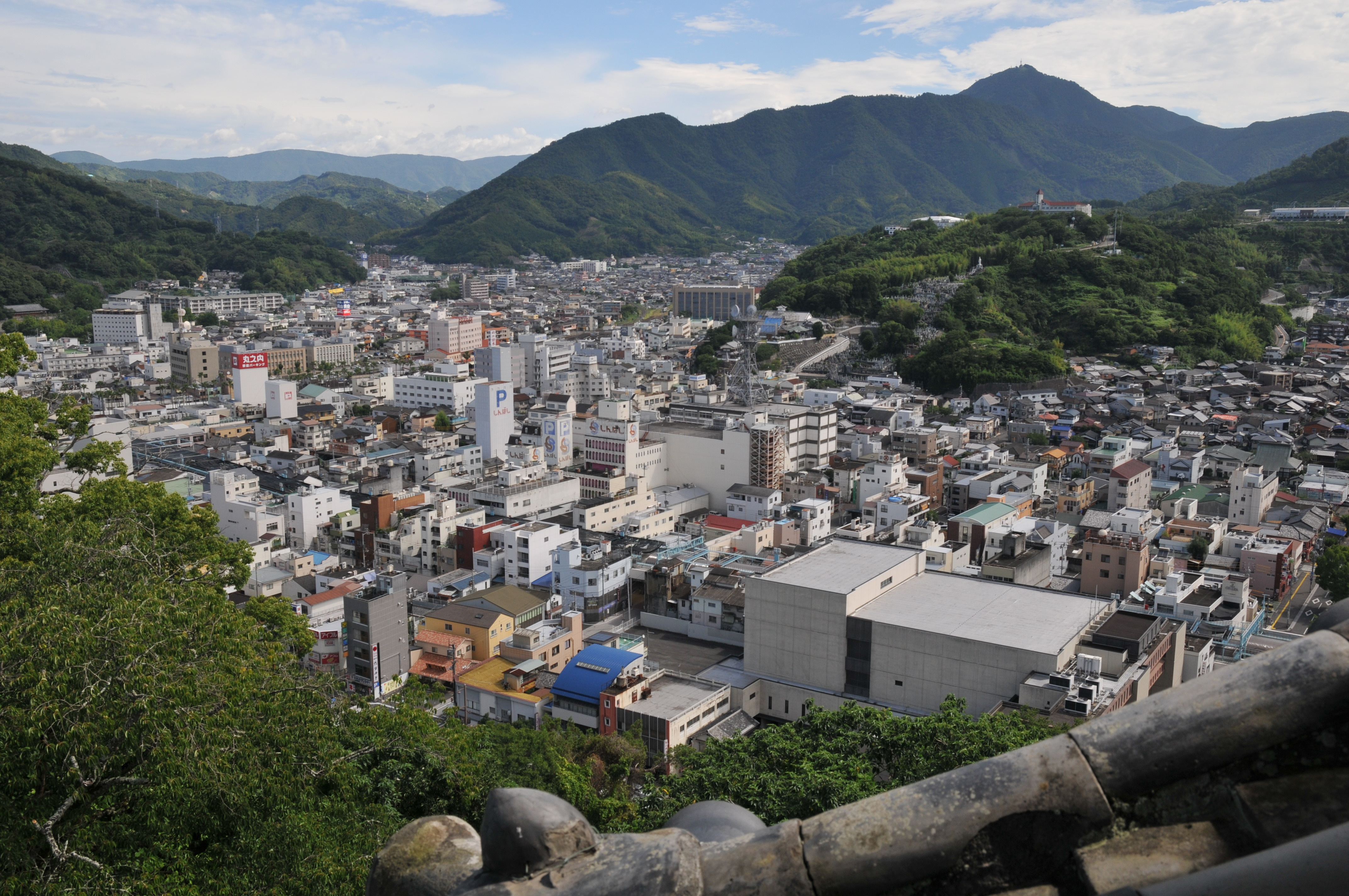 Uwajima city view from Uwajima castle keep